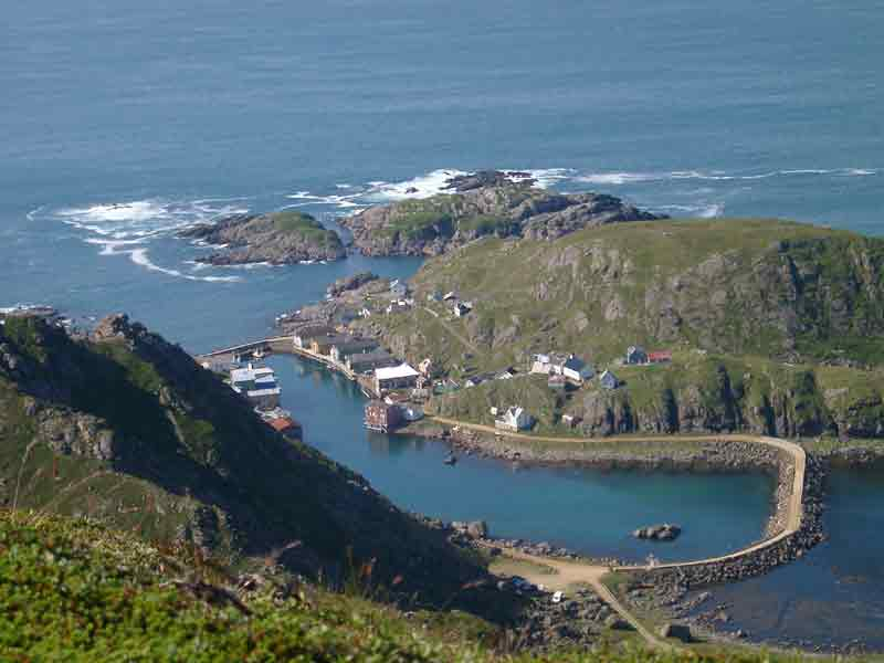 Nyksund, Vesterålen, Norway